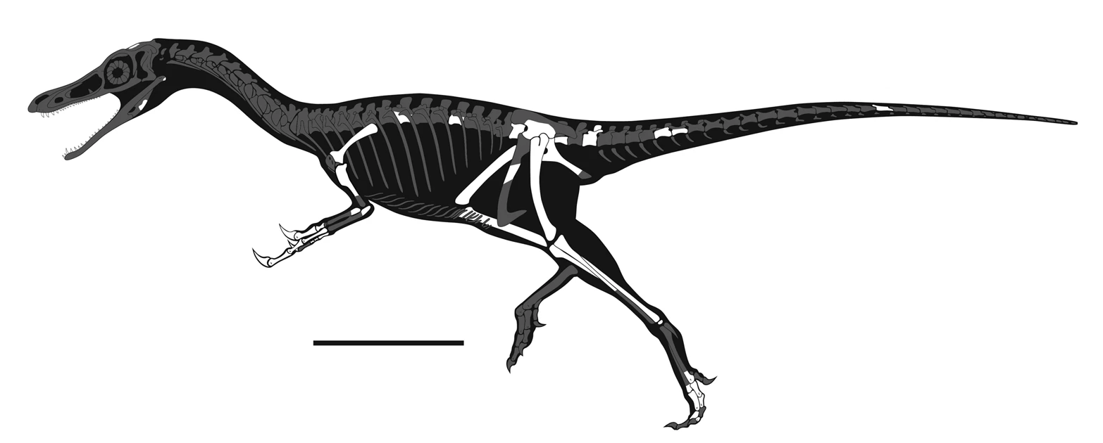 Skeletal reconsturion of alvarezsaurian dinosaur Shishugounykus inexpectus. Scale bar, 20 mm.